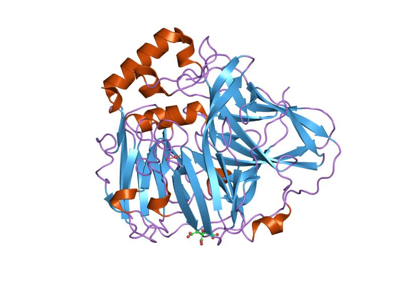 Cartoon representation of the molecular structure of protein registered with 2fqe code.